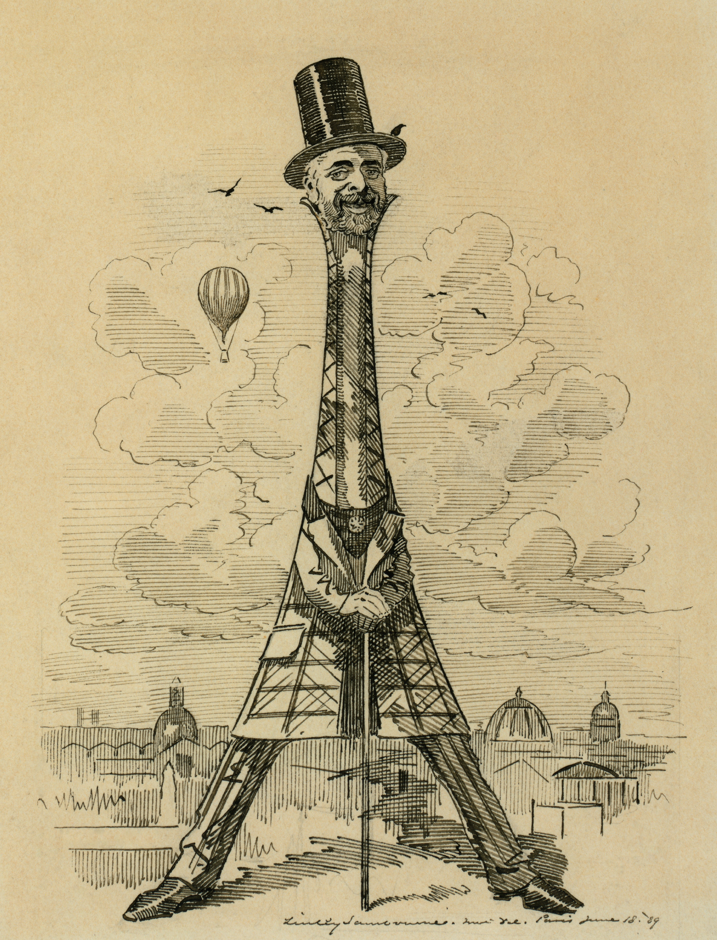 Caricature of Gustave Eiffel (1832-1923) in the form of the Eiffel Tower by Edward Linley Sambourne (1844–1910). Illustration for Punch, vol. 96, p. 324 (June 29, 1889).